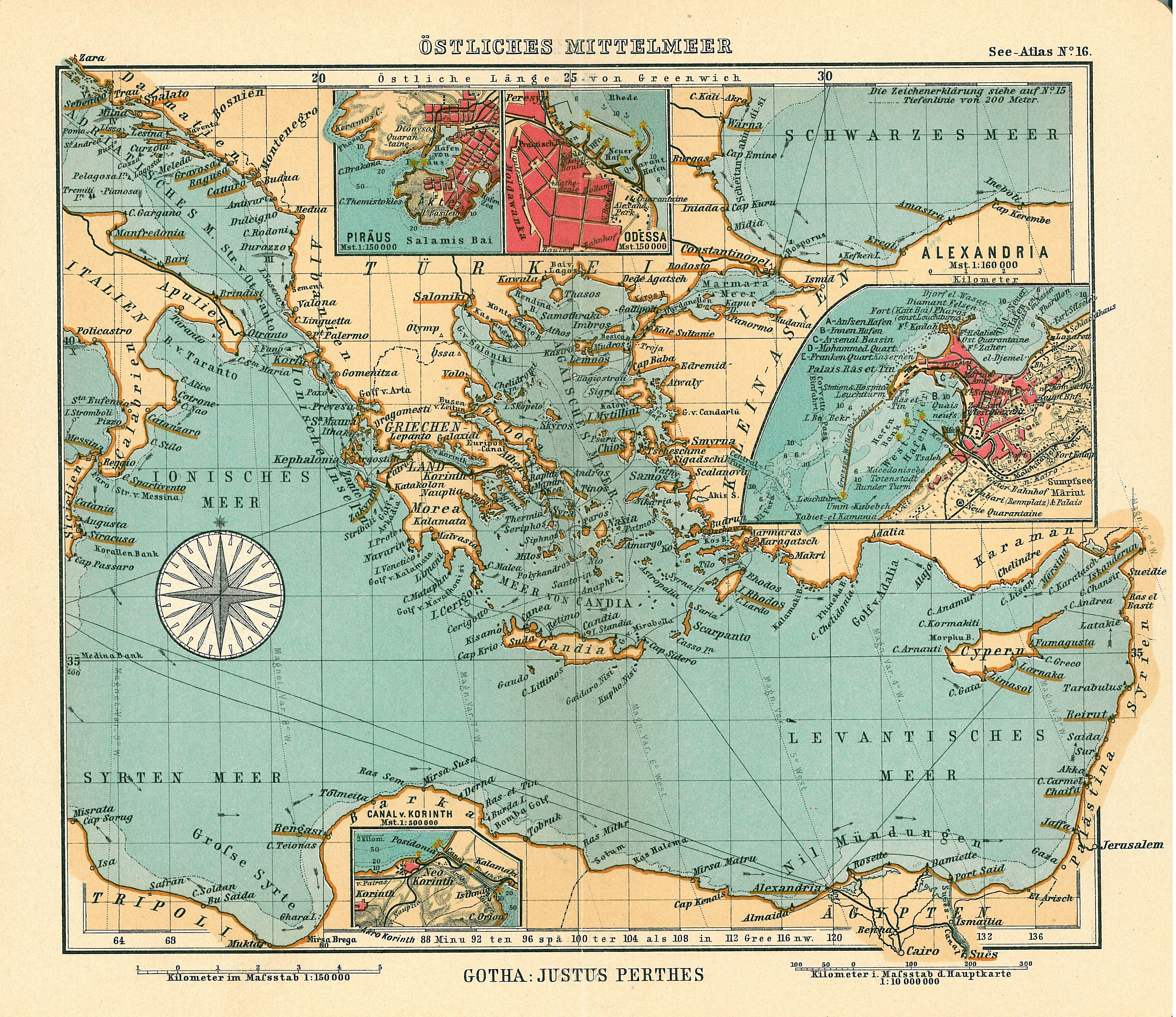 Page 16, Eastern Mediterranean sea, inset maps of Alexandiria, Piraeus, Odessa